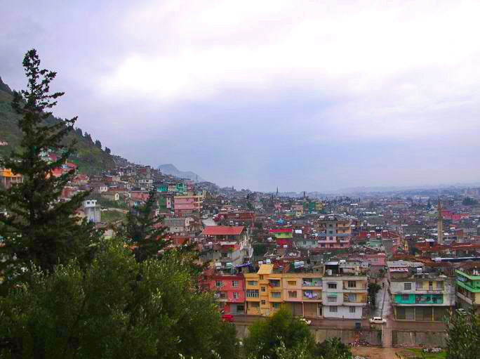 Antakya